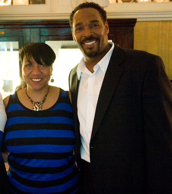 Rodney King and Cynthia Kelley before a Hudson Union Society event at The Players club in New York City, NY.